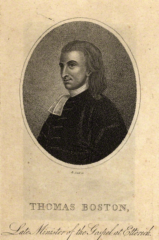 Portrait of Thomas Boston